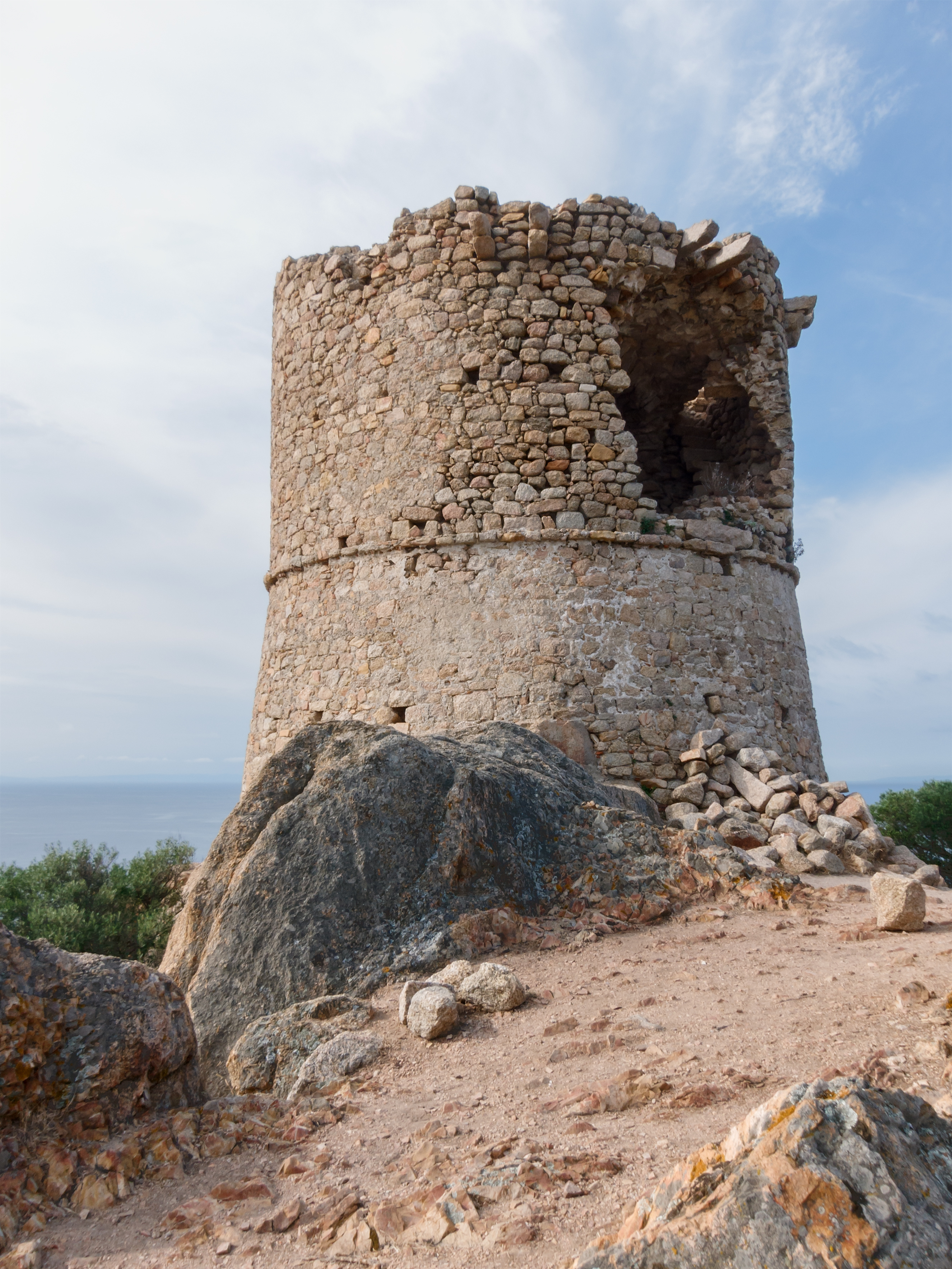 The Torra di Roccapina (Roccapina Tower), a Genoese tower from the 17th century near Sartène, Corsica, France. Corsu: Torra di Roccapina .